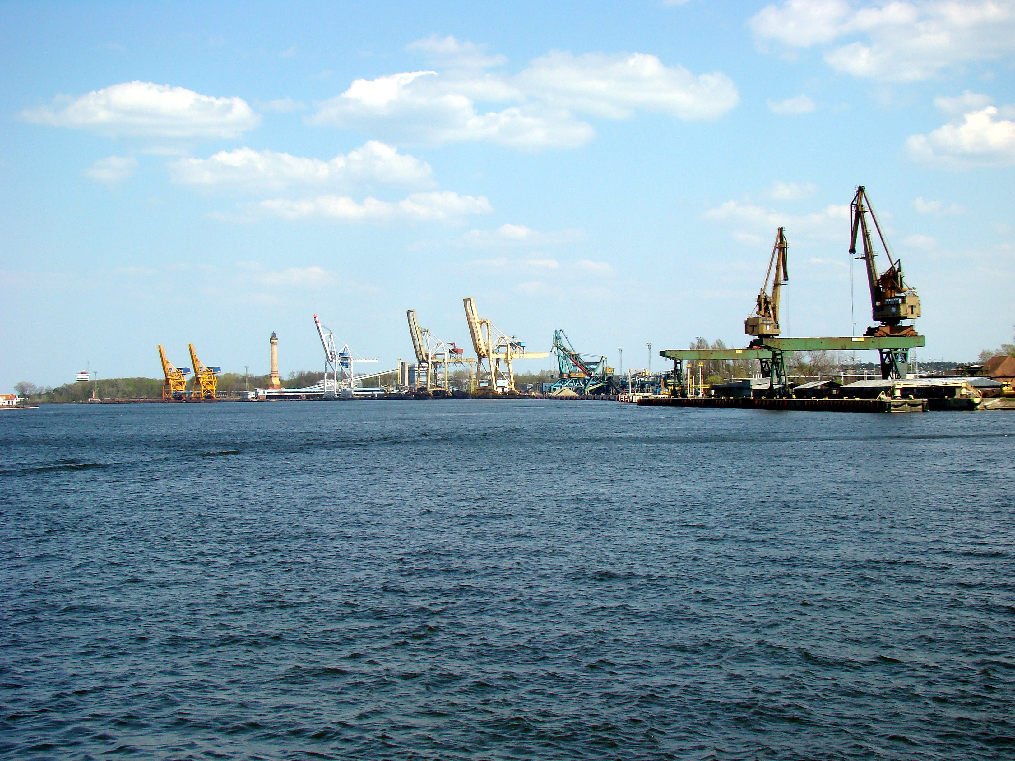 Trade Port Swinoujscie, Poland